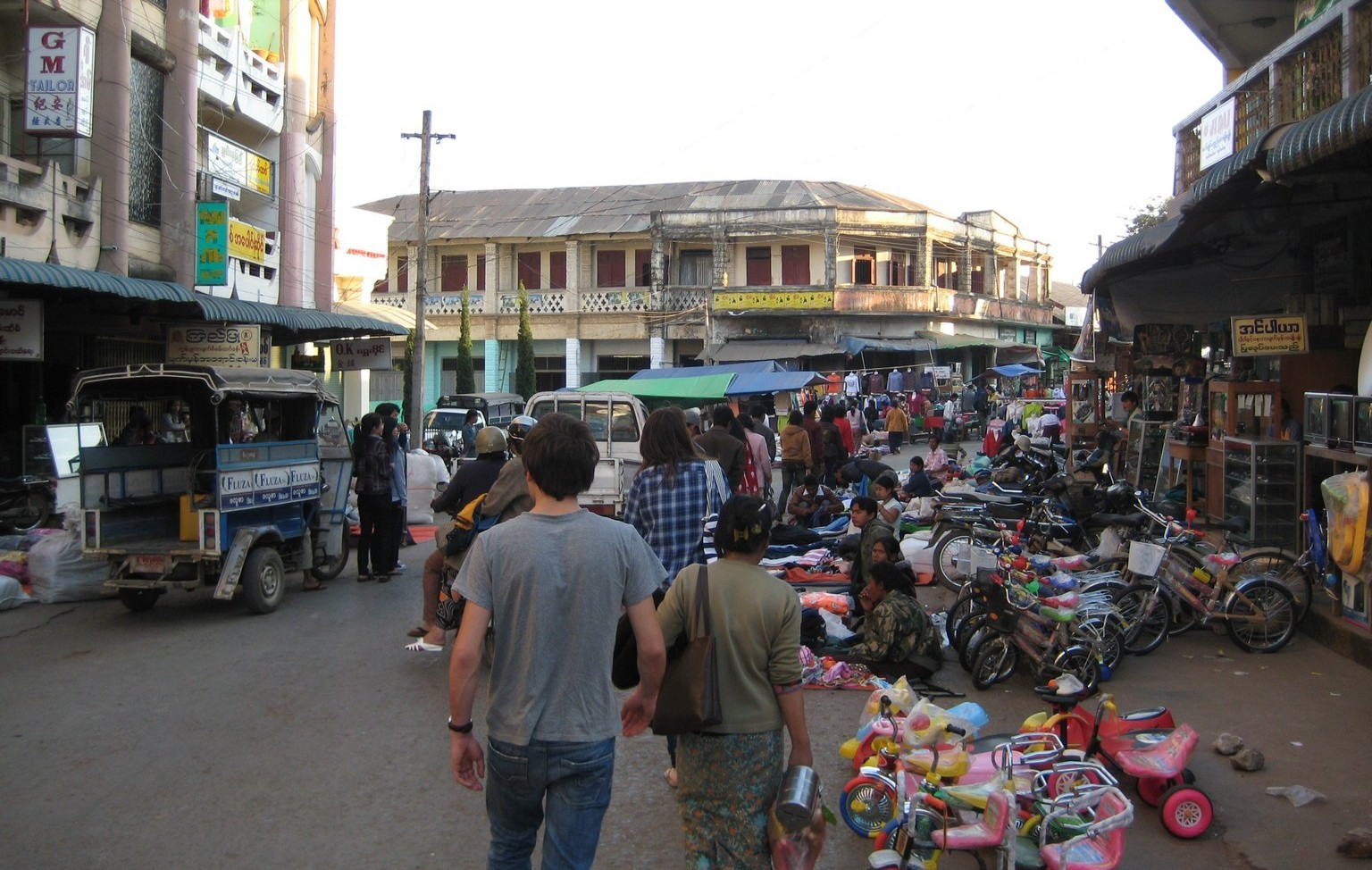 Lashio, Shan State